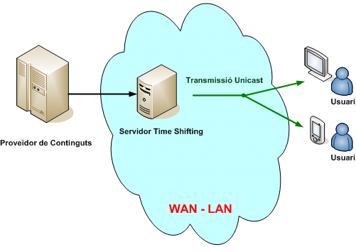 Describes the VoD Architecture in a NVR enviroment